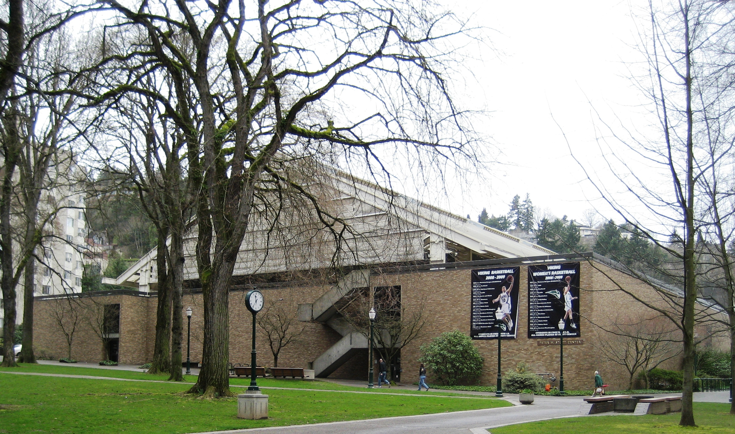 Peter Stott Center at PSU in Portland, Oregon, USA